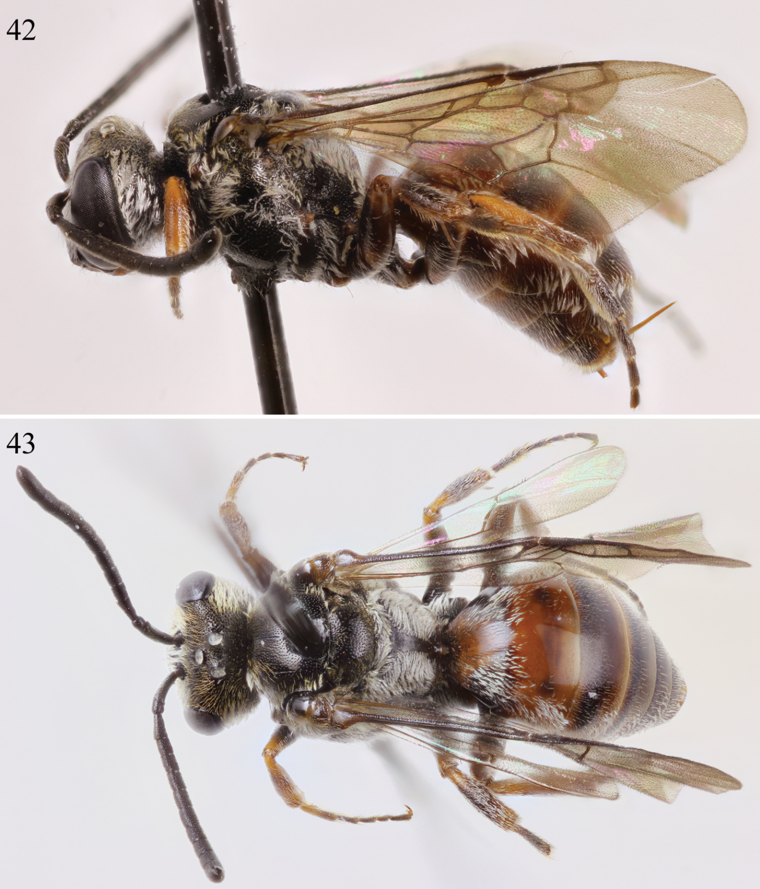 Female habitus of Chiasmognathus batelkai. 42 Lateral 43 Dorsal.